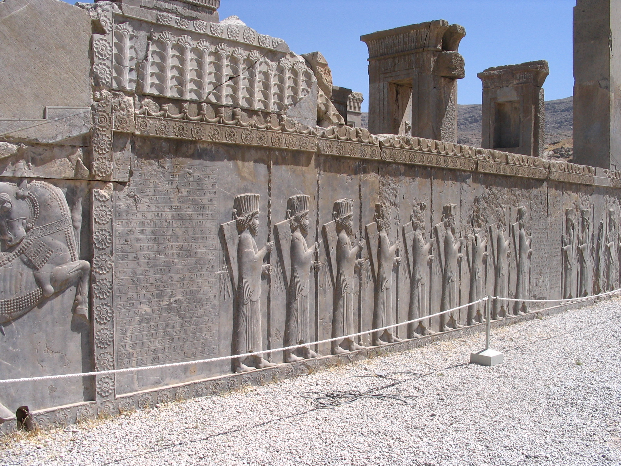 Well preserved Achamenid reliefs from Persepolis.